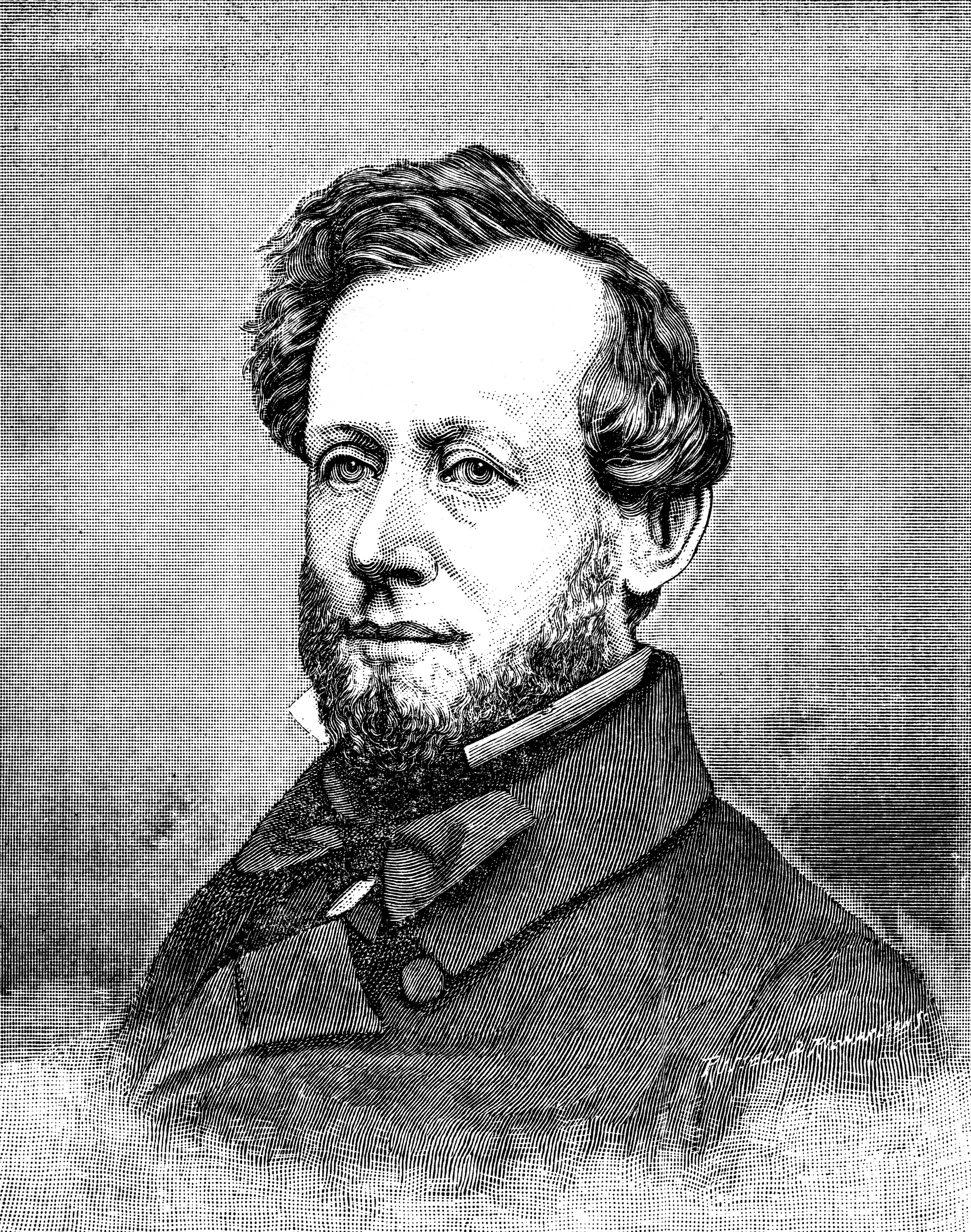 William M. Rodman mayor of Providence. Source: The Providence Plantations for 250 Years, 1886, page 106.